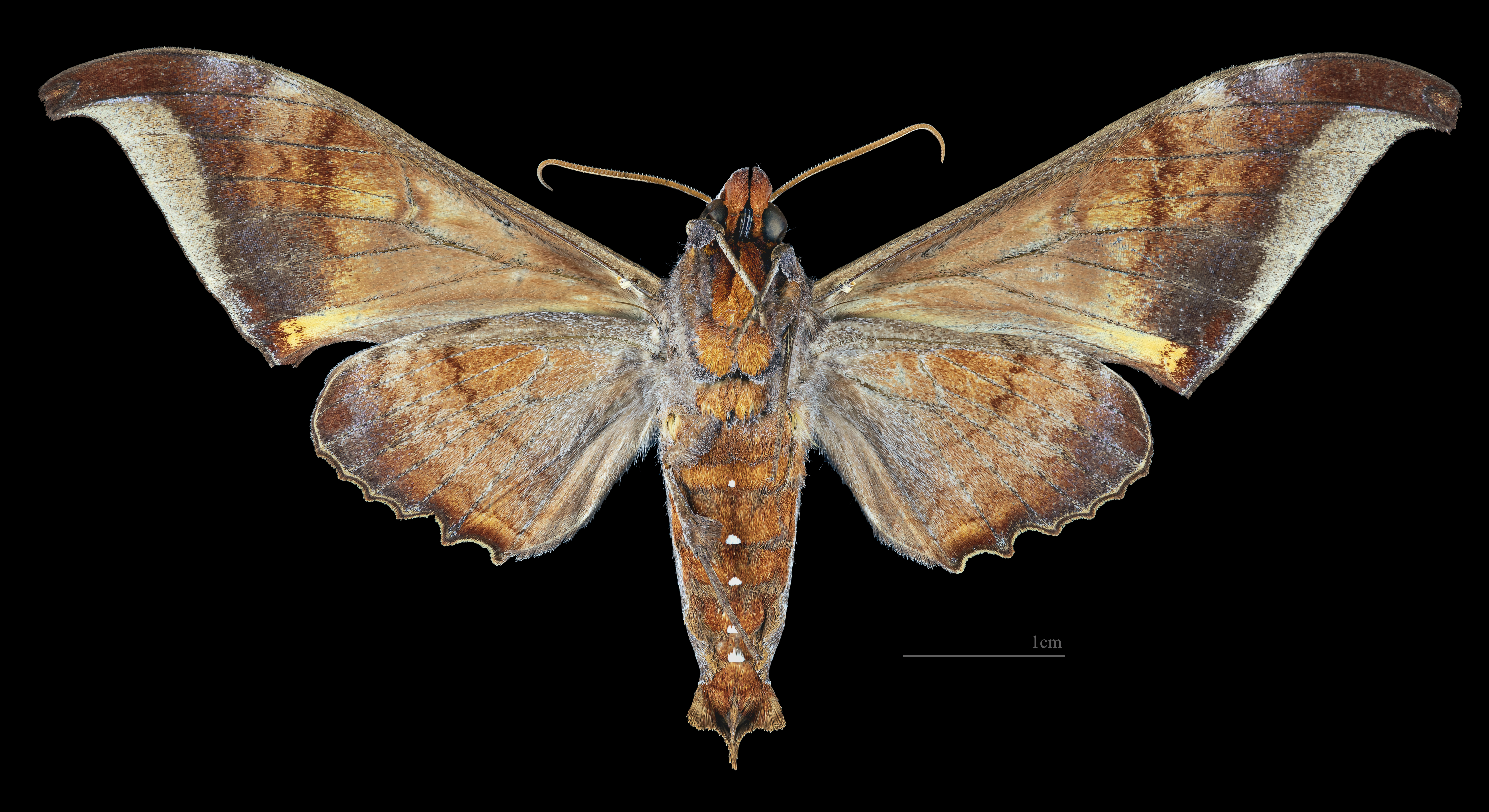 Barbourion lemaii - △ Ventral side Collection of the Mathematician Laurent Schwartz